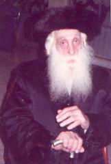 The Ziditshover Rebbe of Bnei Brak